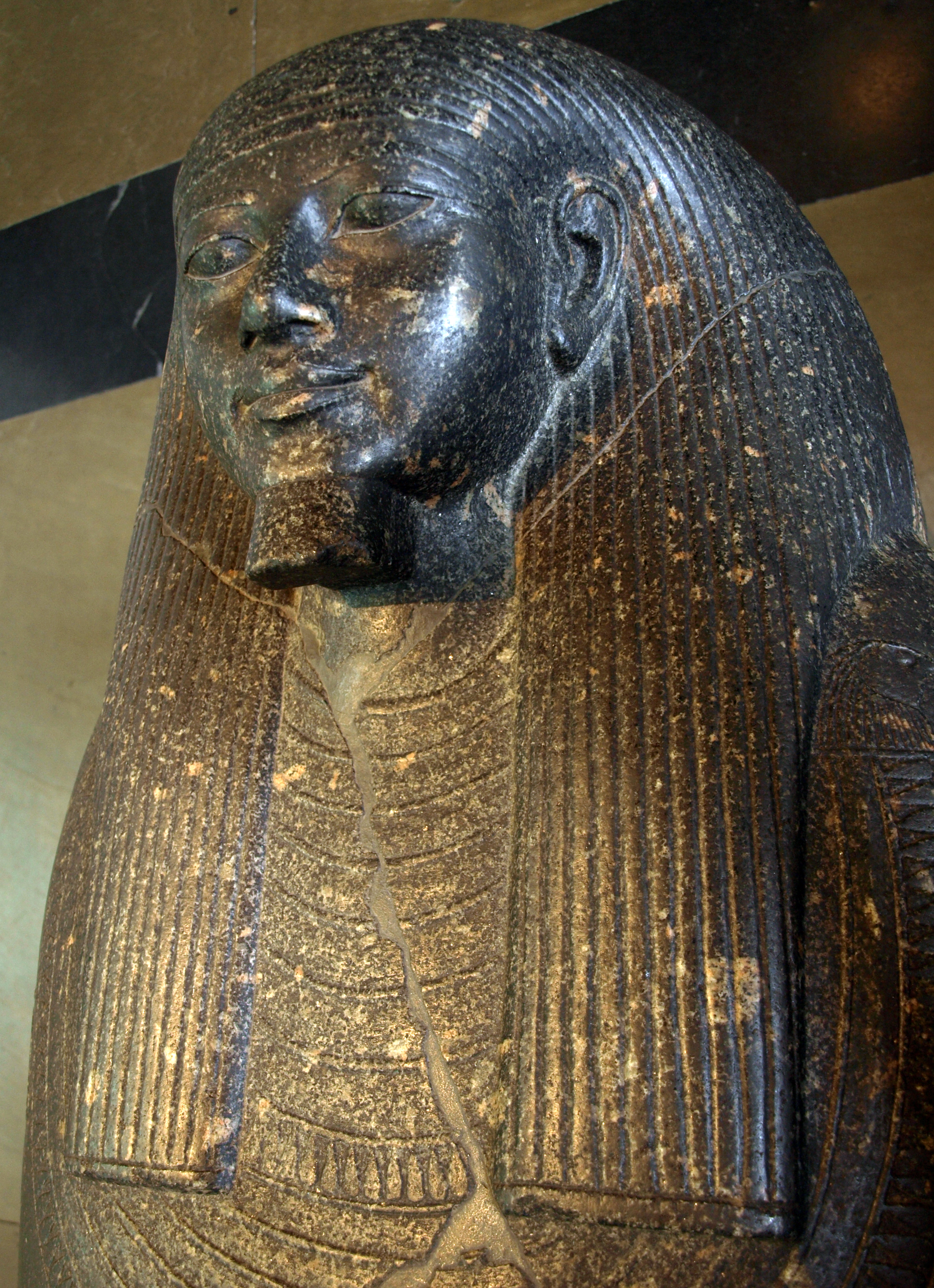 Black granite sarcophagus of the viceroy of Kush, Merymose (detail of head), circa 1380 BC, originally from Thebes. EA 1001.